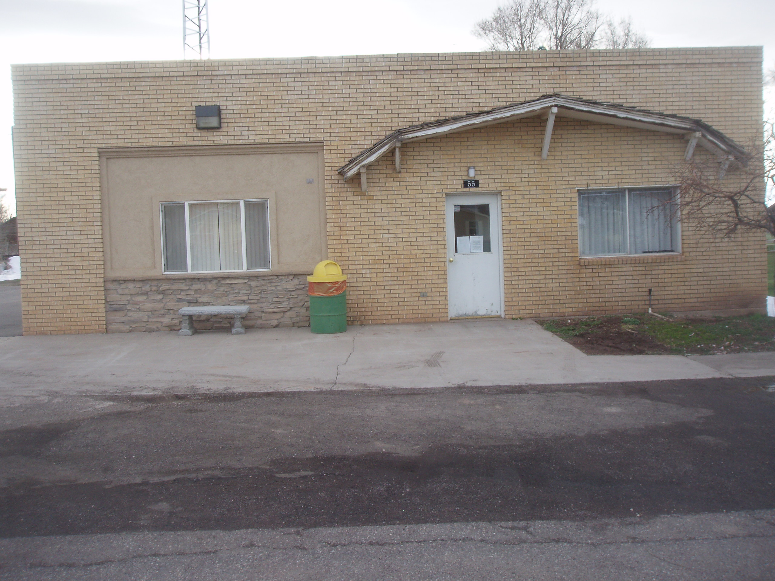 The town hall of Kanosh, Utah, United States.